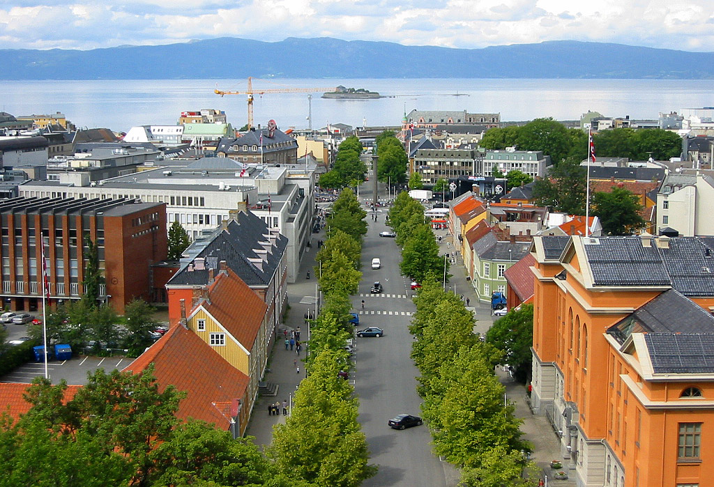 Improved version of Image:Trondheim from roof of cathedral.jpg. Cropped and corrected over-exposure. Taken from the tower of the , looking towards the and 's city centre.